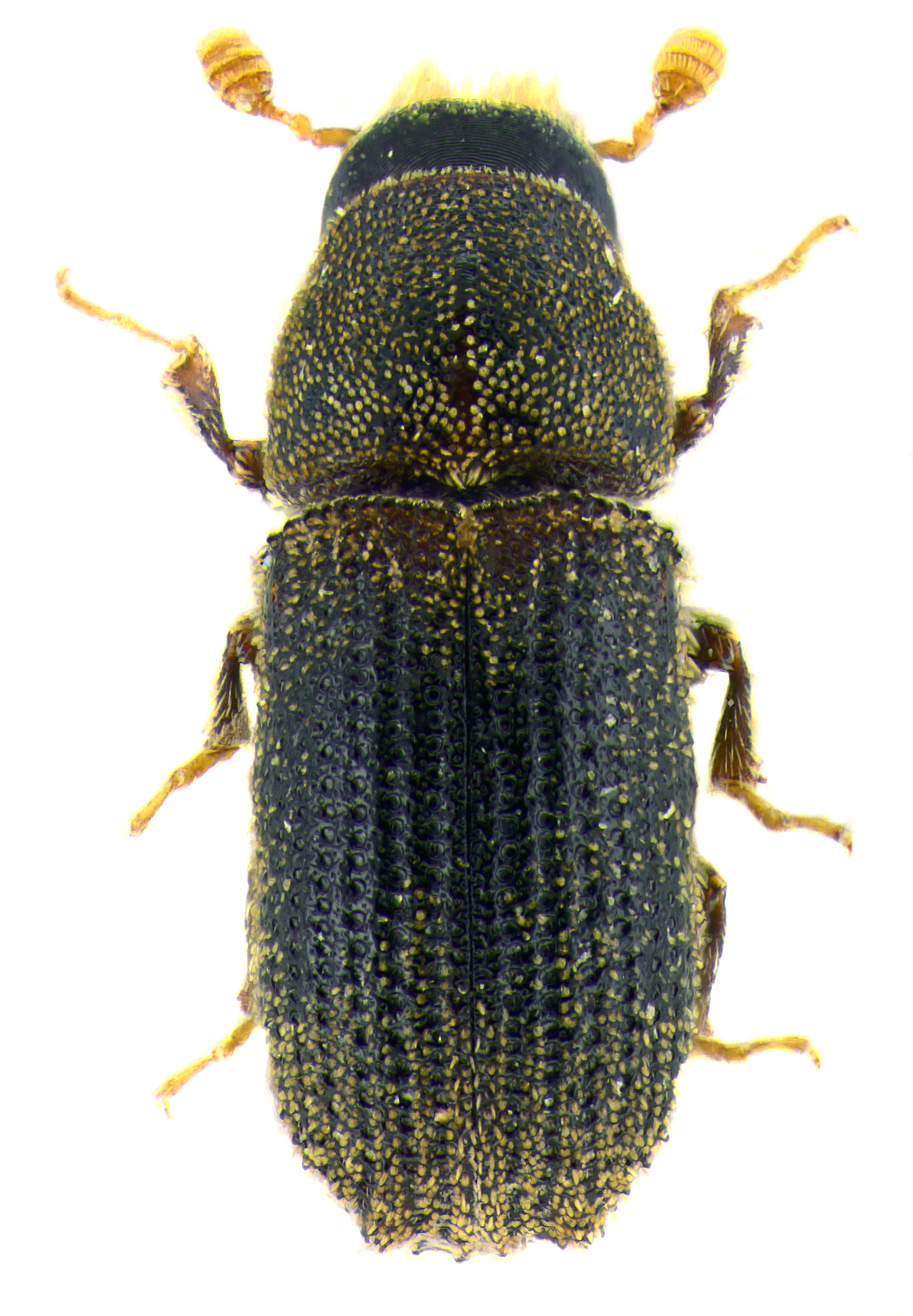 Cholodkovsky's bark beetle (Carphoborus cholodkovskyi)